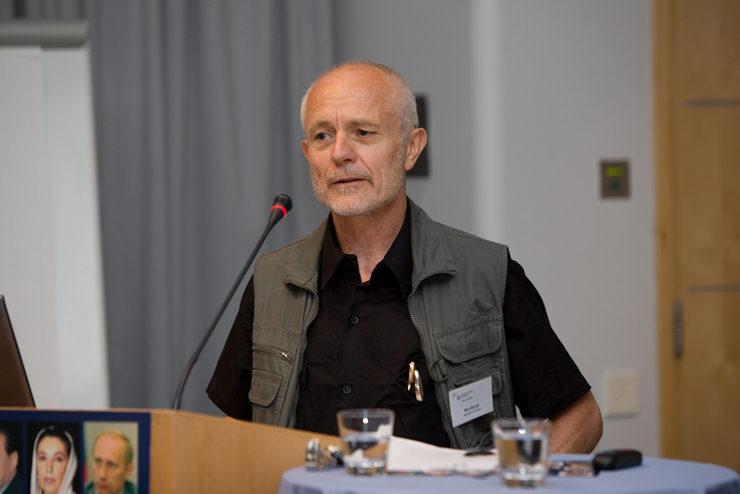 Mick Moore, Fellow, University of Sussex Presentation: Perverse incentives: globalization and the elites of weak states